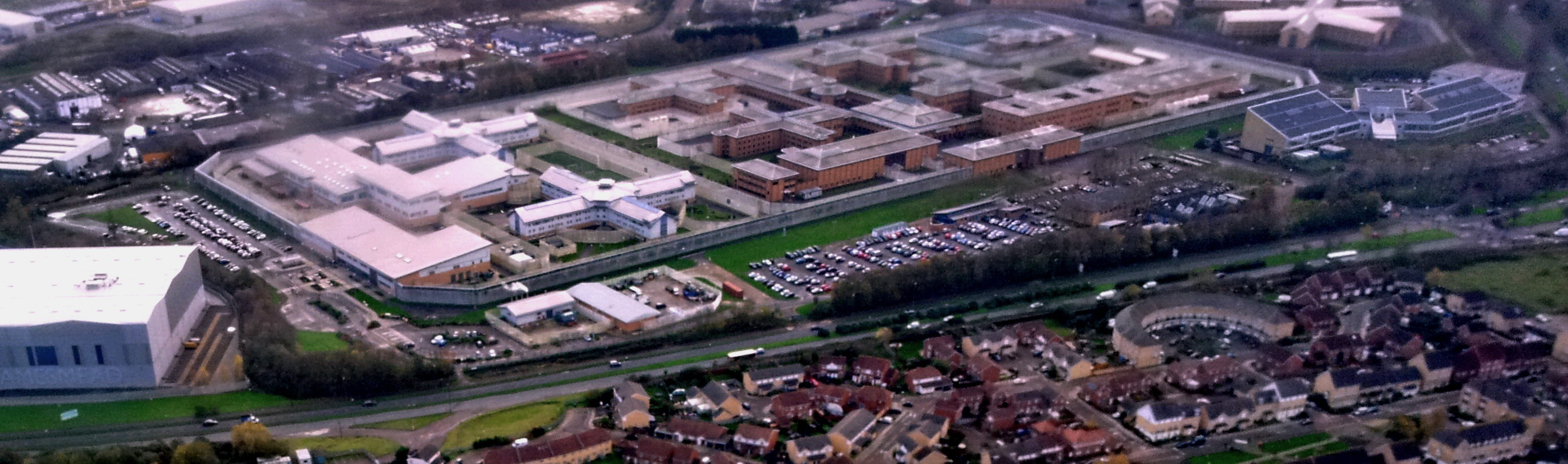 Aerial view of HM Prisons Isis and Belmarsh in Thamesmead, South East London.